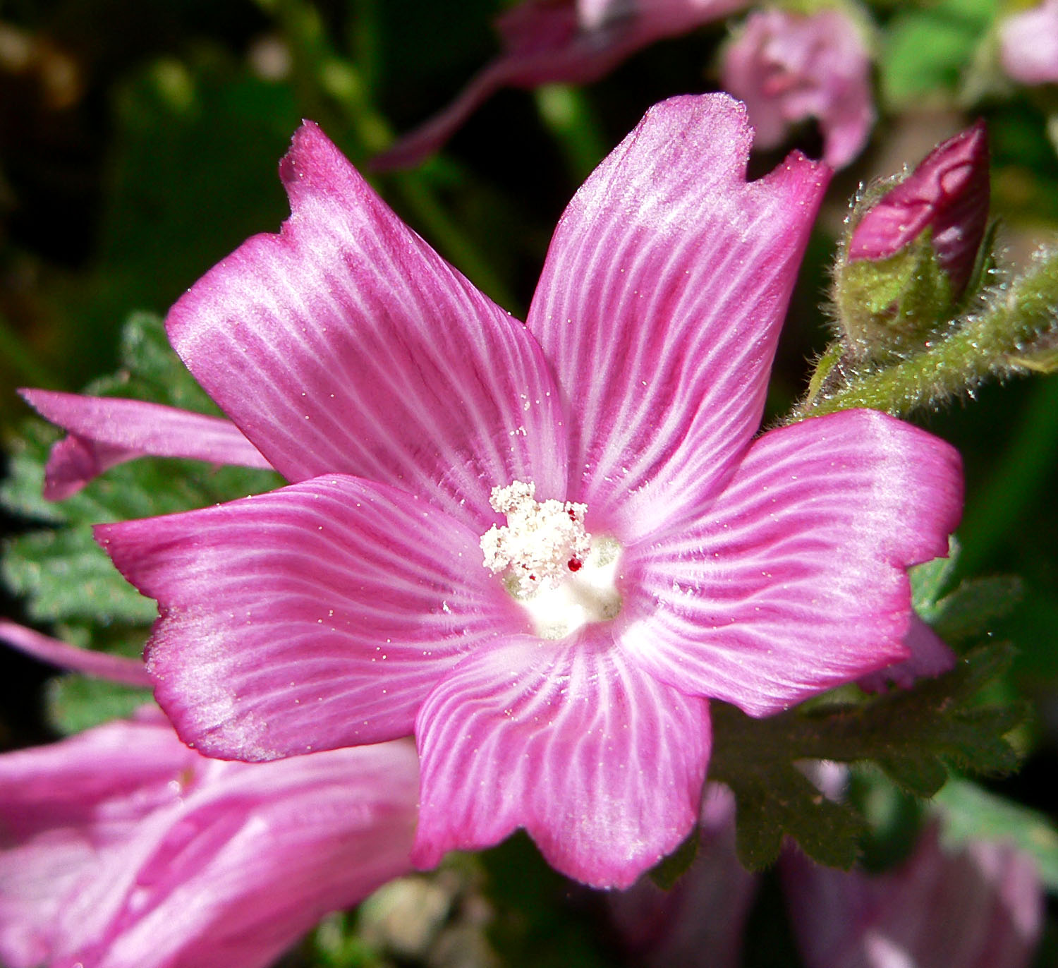 Sidalcea malviflora ssp. malviflora — Checker mallow, Dwarf checkerbloom. At the Regional Parks Botanic Garden, Berkeley Hills, California.